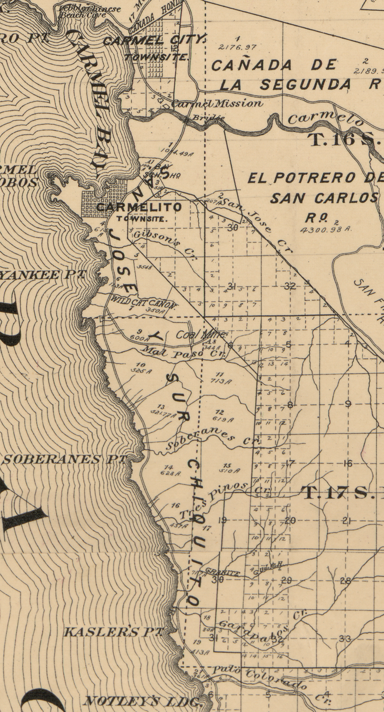 Cadastral map showing drainage, ranchos, township & section lines, parcels, roads, railroads, canals, etc. - LC Land ownership maps, 28 - "Approved and declared the official map of Monterey County, California, this 3rd day of May, 1898." - LC copy rubber-stamped on lower left margin: 745B. - Available also through the Library of Congress Web site as a raster image One map on 2 sheets : col., cloth backing ; 146 x 179 cm., sheets 77 x 186 cm. Library of Congress Geography and Map Division Washington, D.C. 20540-4650 USA dcu